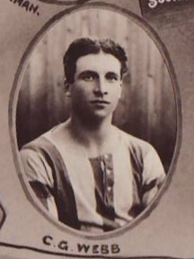 Charlie Webb, Ireland international footballer, pictured in Brighton & Hove Albion F.C. kit in 1910